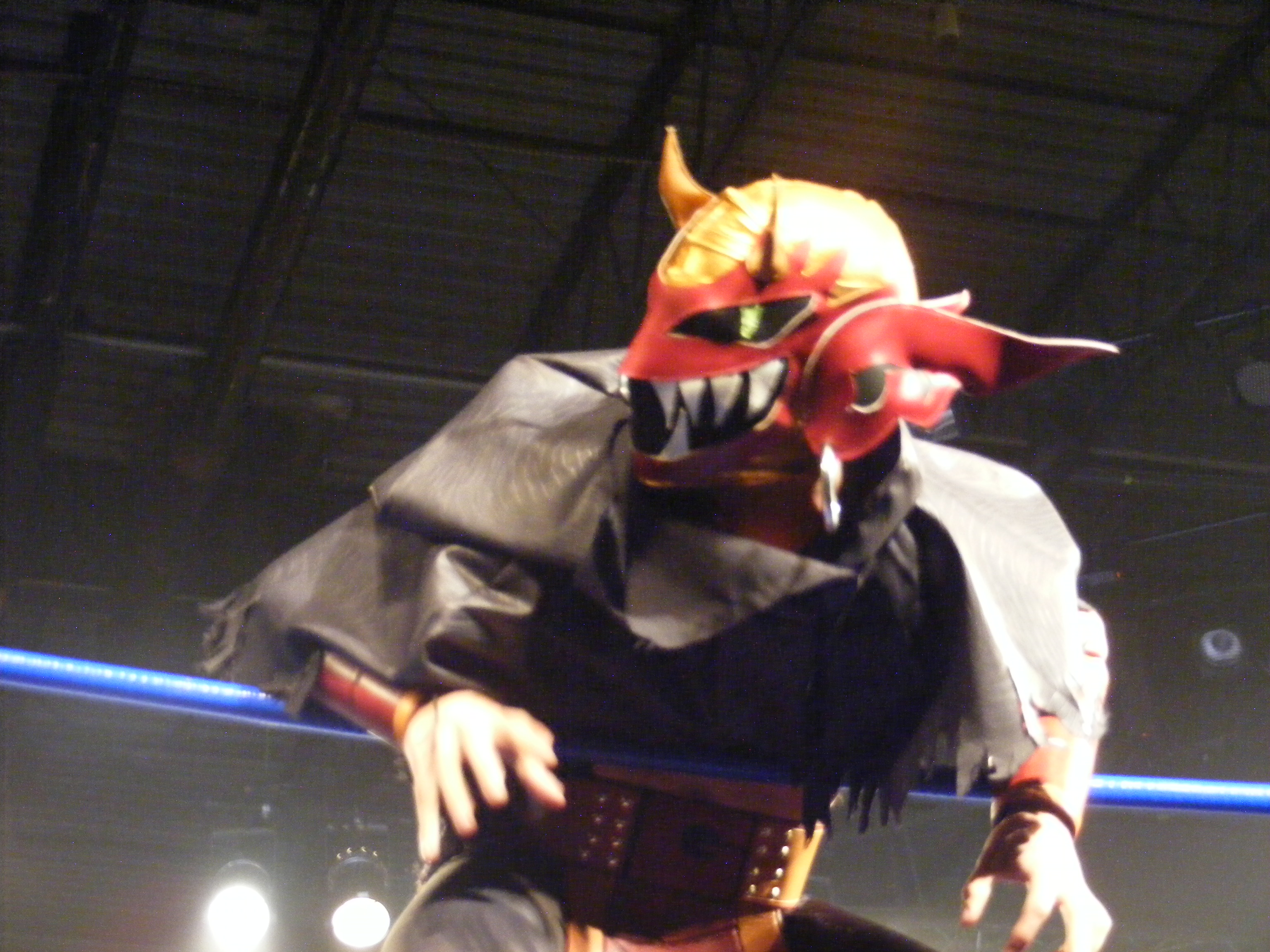 Professional wrestler Kobald at a Chikara event.